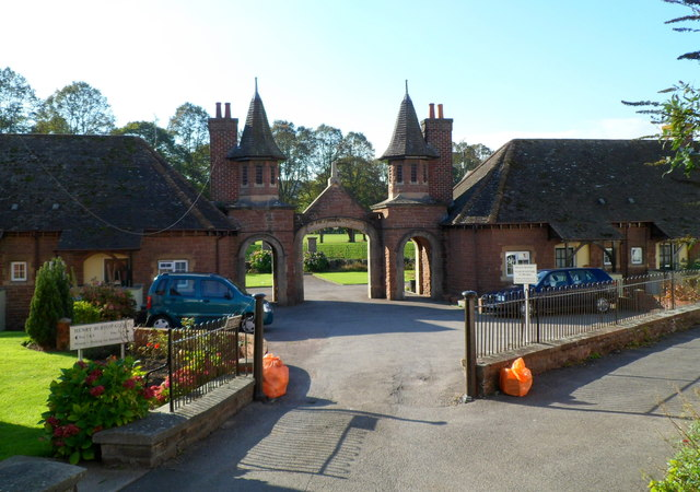 Archway, Henry Burton Court, Monmouth